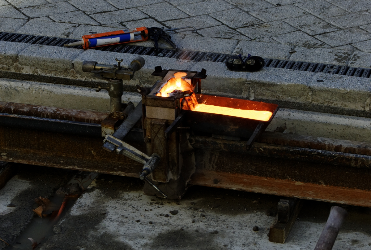 Molten metal is used to join tram tracks